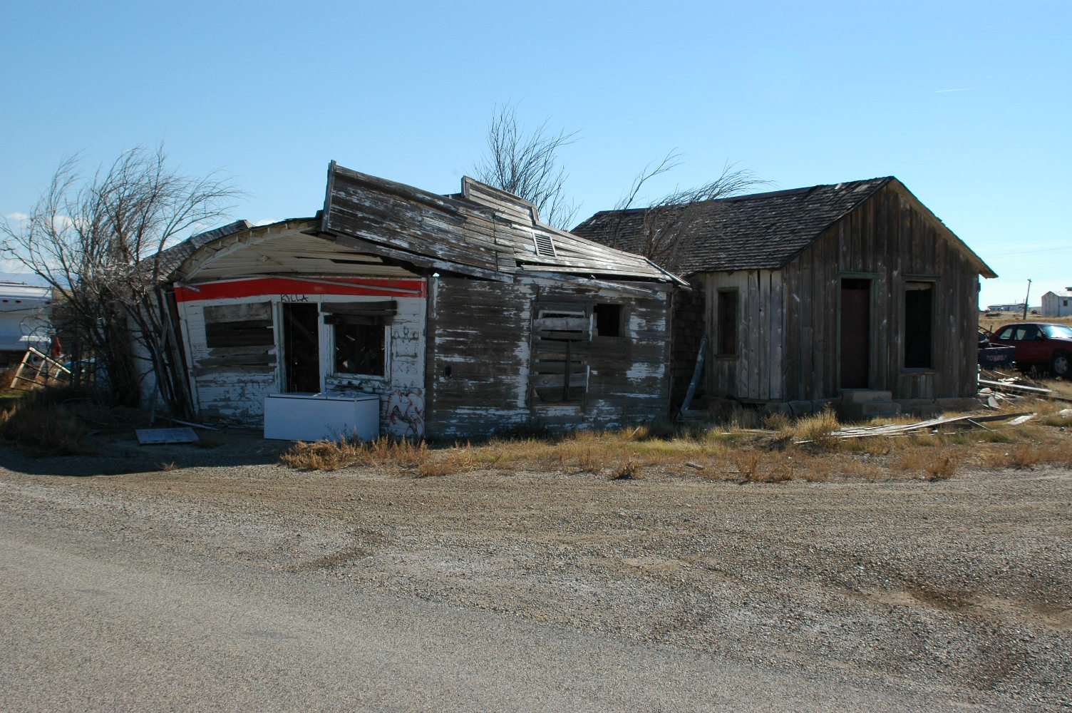 Utah Ghosttown Cisco.